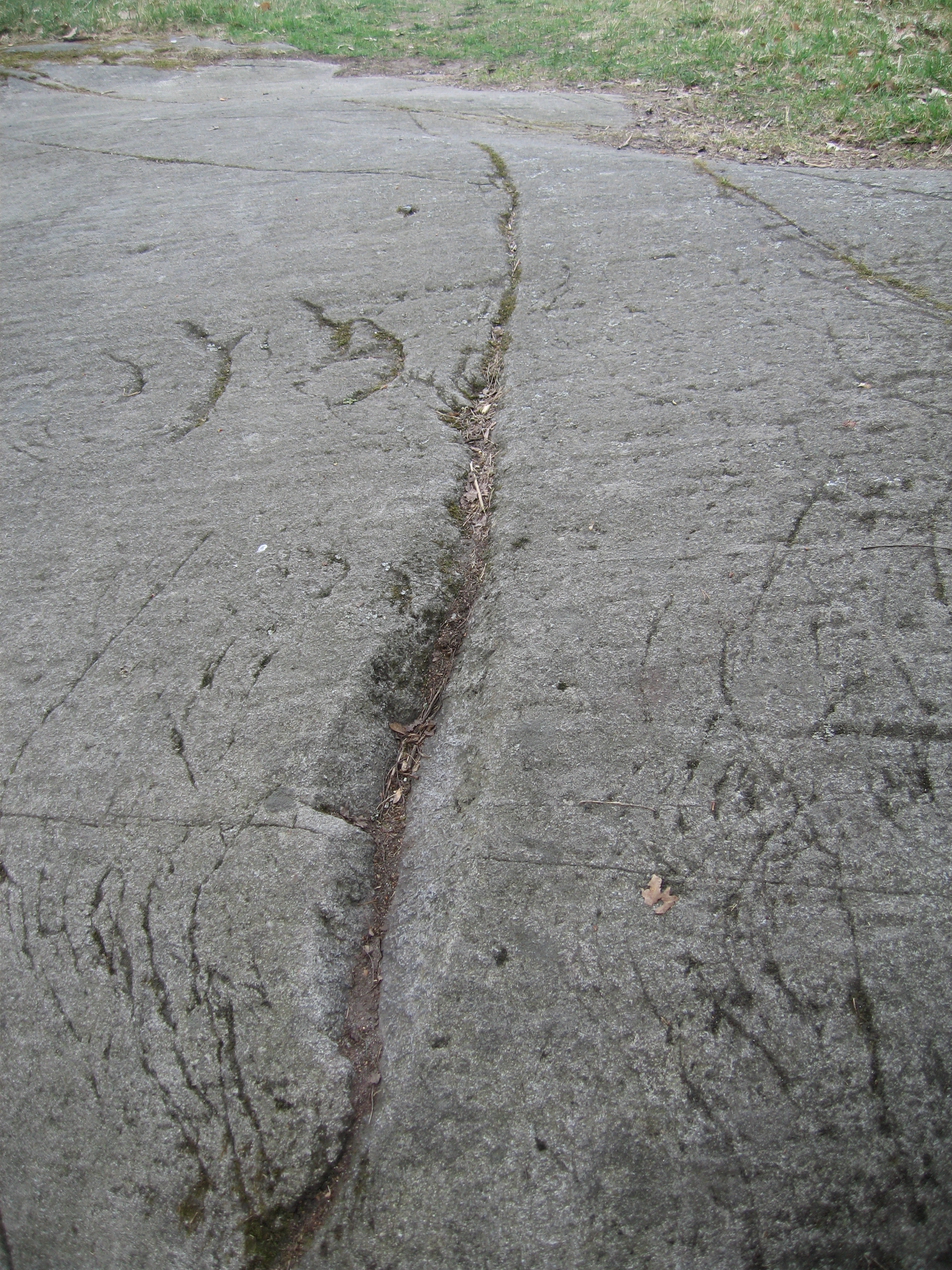 Different types of glacial striation, glacial grooves